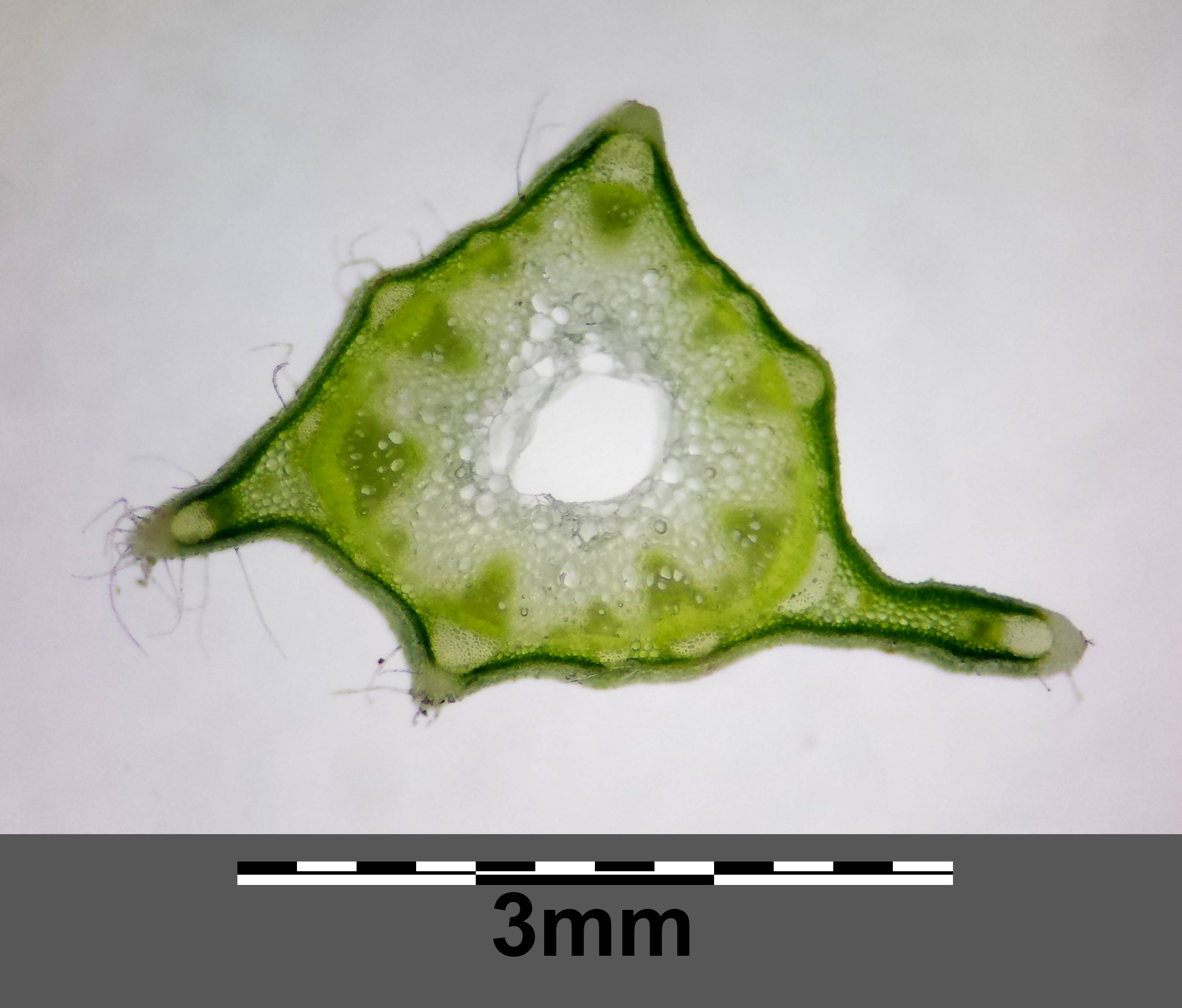 Stipe (sliced) Taxonym: Lathyrus pratensis subsp. pratensis ss Fischer et al. EfÖLS 2008 ISBN 978-3-85474-187-9 Location: Rohrwald, district Korneuburg, Lower Austria - ca. 300 m a.s.l. Habitat: border of a wood